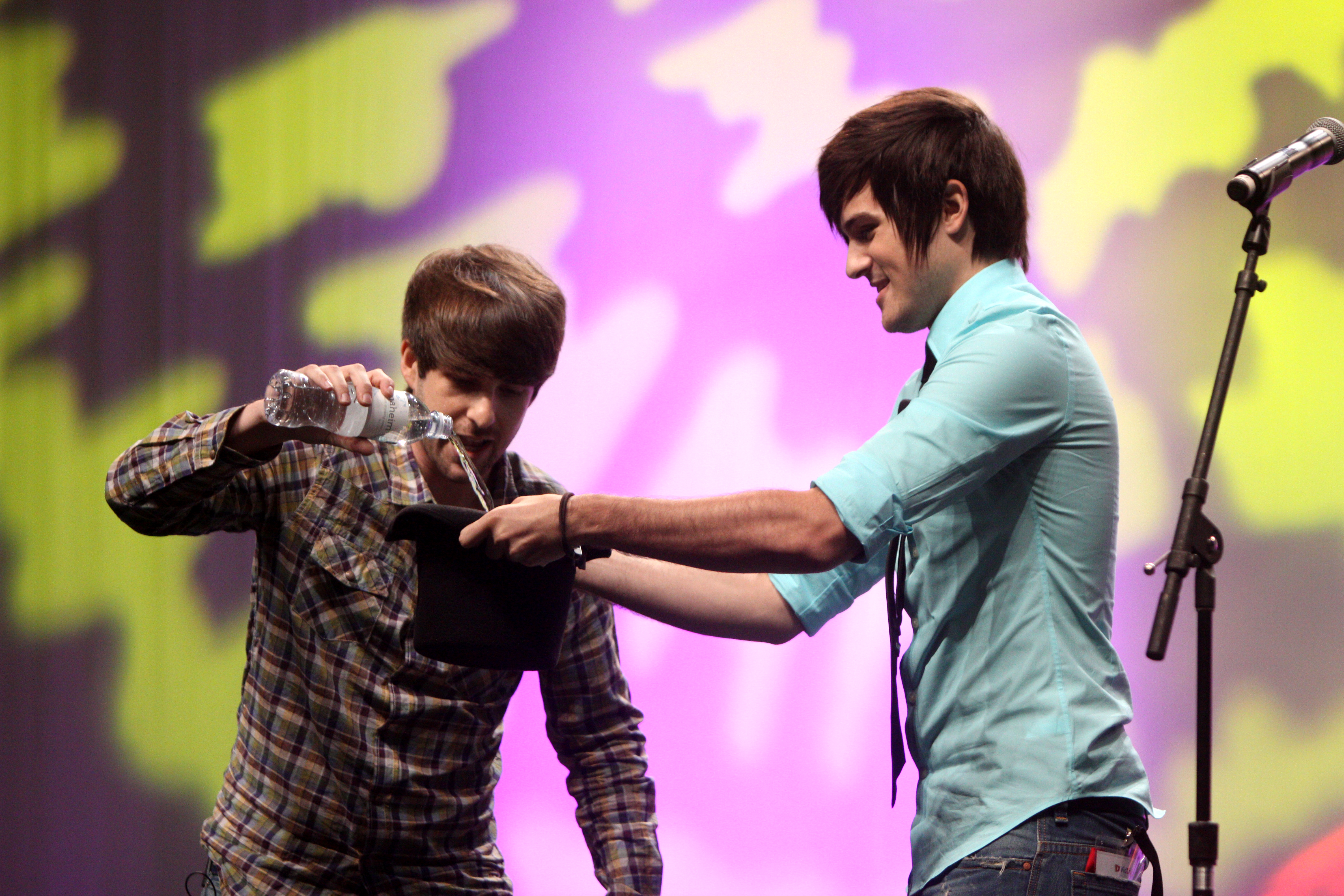 Ian Hecox & Anthony Padilla performing at VidCon 2012 at the Anaheim Convention Center in Anaheim, California.